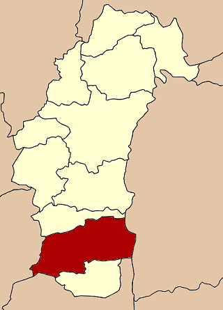 Map of Phetchabun Province, Thailand, highlighting the district Wichian Buri (อำเภอวิเชียรบุรี)